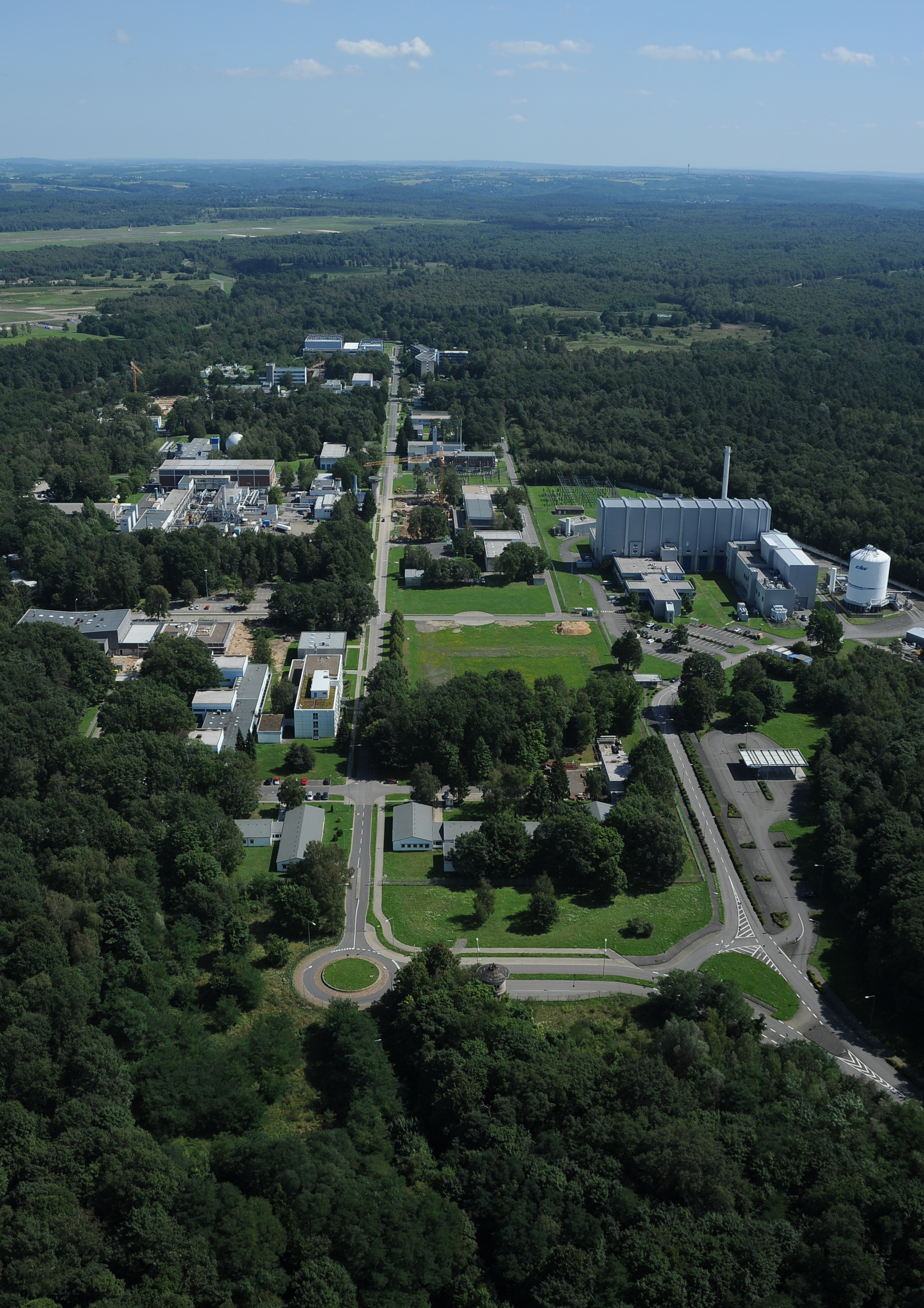 Head office of the German Aerospace Center in Lind, Cologne, adjacent to Cologne/Bonn Airport